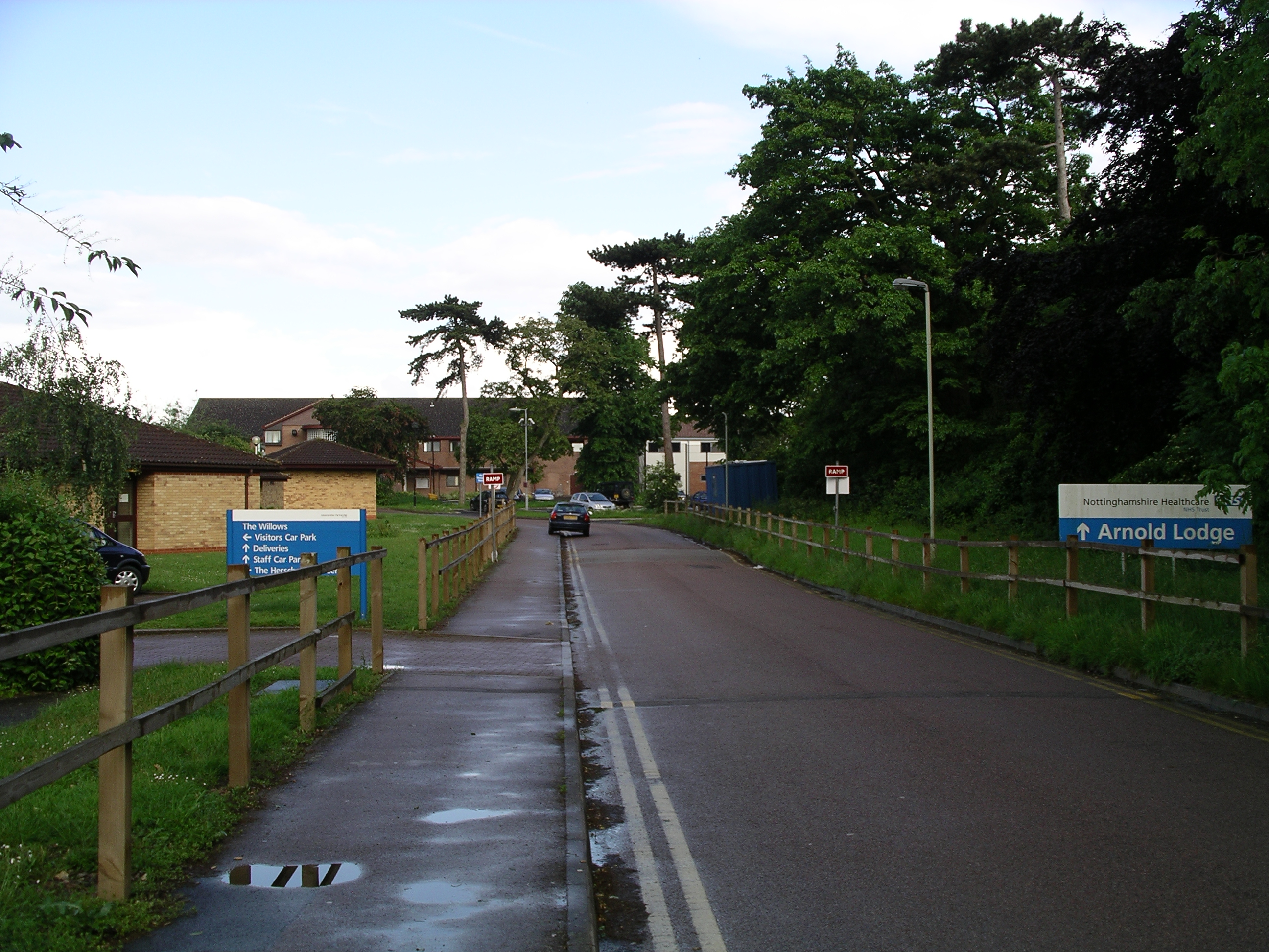 photo of Arnold Lodge, a secure hospital in Leicester, England.